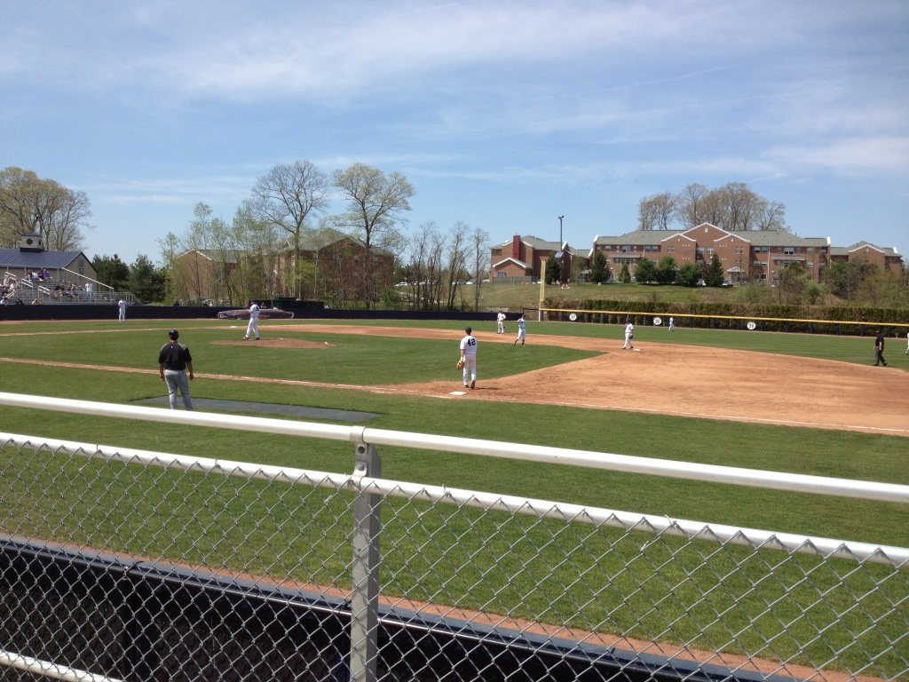 A better image of J.O. Christian Field than the one currently in the article. Shows the infield prior to a doubleheader against Rutgers on April 20, 2012.